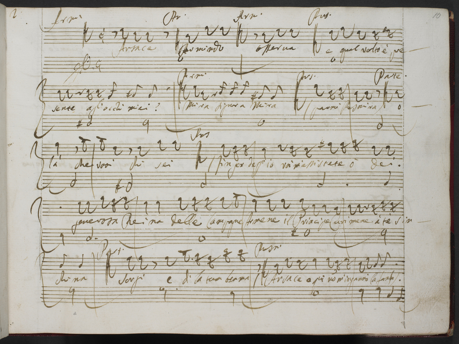 La Rosmira fedele, or Partenope. In the composer's hand.